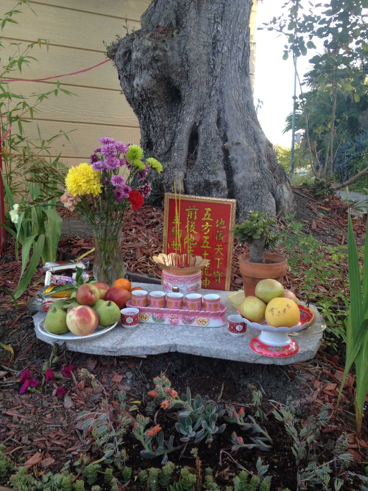 Fruits and flowers, offerings to the Buddha, intersection of East 19th St. and 11th Ave, Oakland